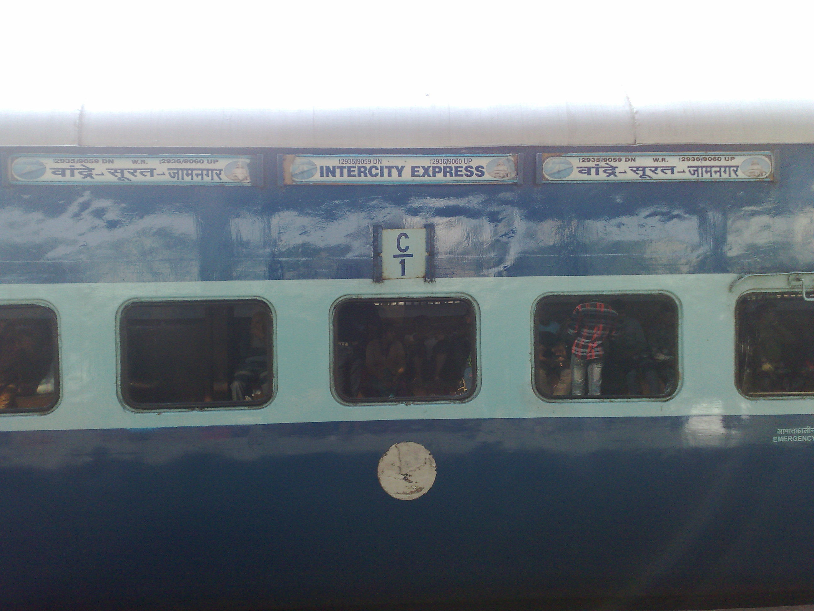 2936 Surat Bandra Intercity AC Chair Car coach